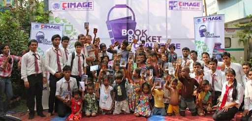 Book Bucket Challenge Function Organised by CIMAGE Management College Patna